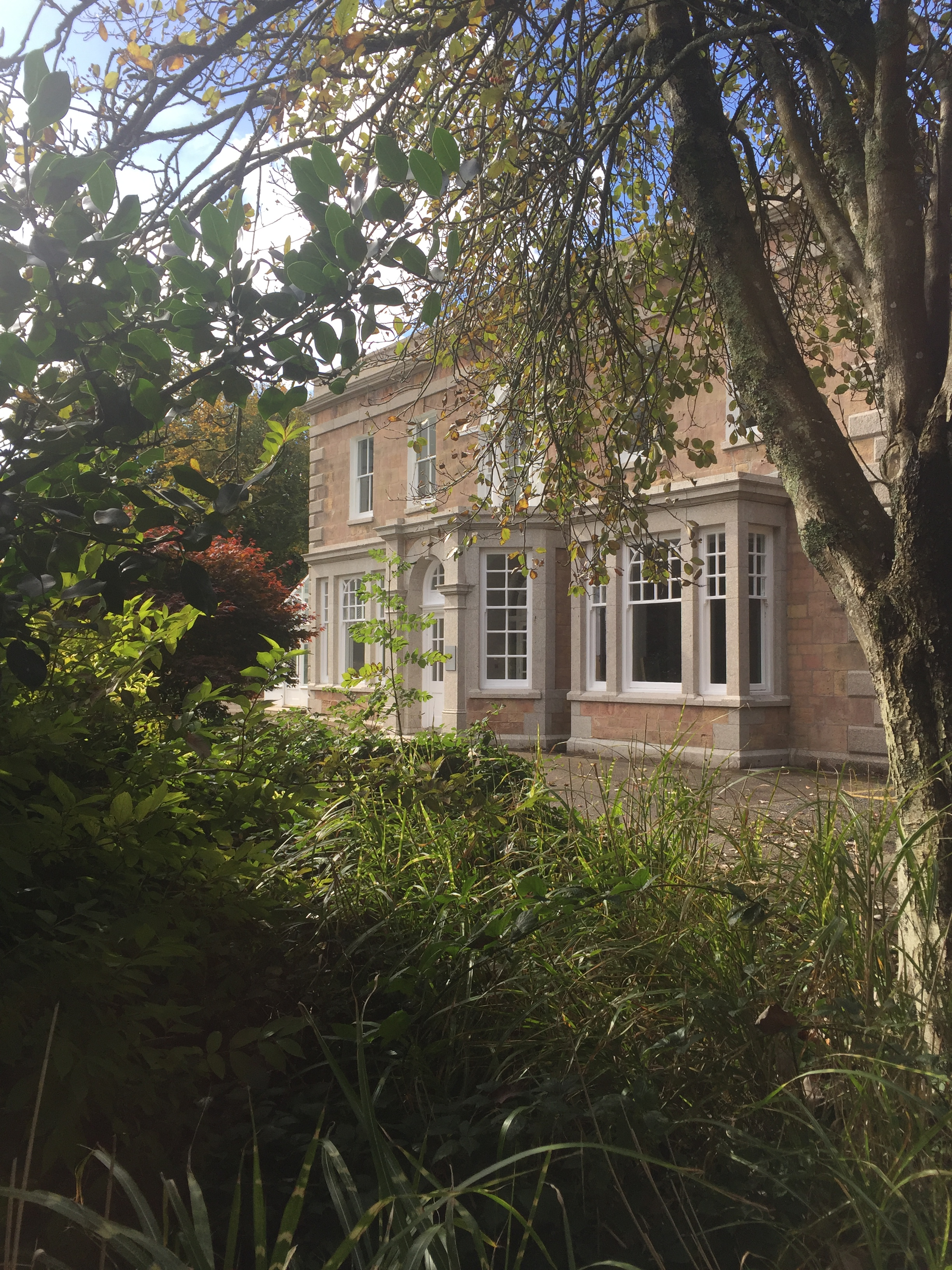 Trevenson House after refreshment in 2018